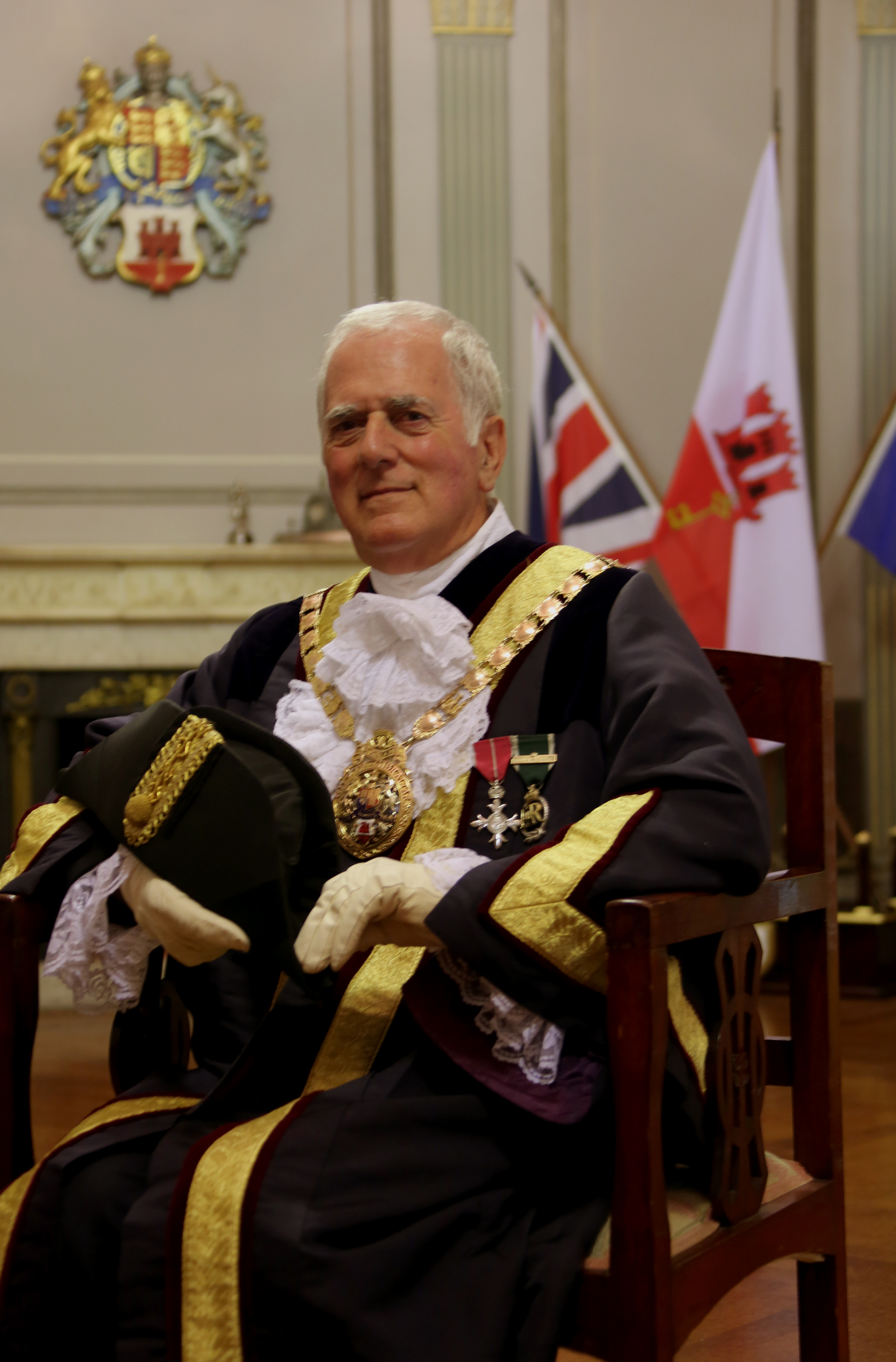 Mayor Anthony Lima 2012 - 2013